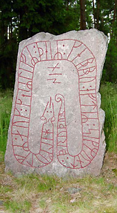 Runestone Nä 31 from the iron age